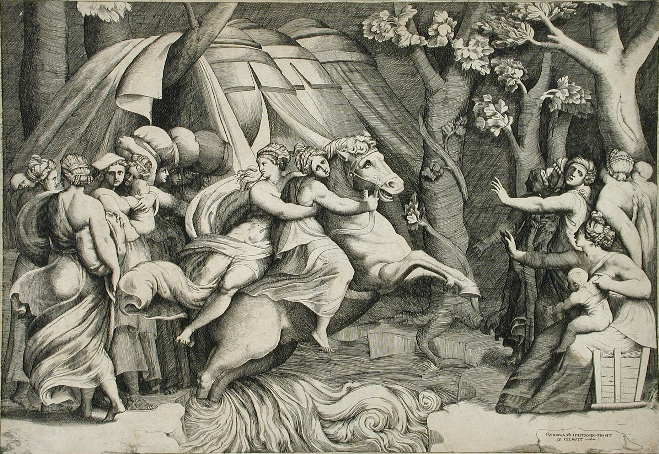 Italy, circa 1546 Prints; engravings Engraving Sheet: 11 3/4 x 17 in. (29.85 x 43.18 cm) Mary Stansbury Ruiz Bequest (M.88.91.213) Prints and Drawings